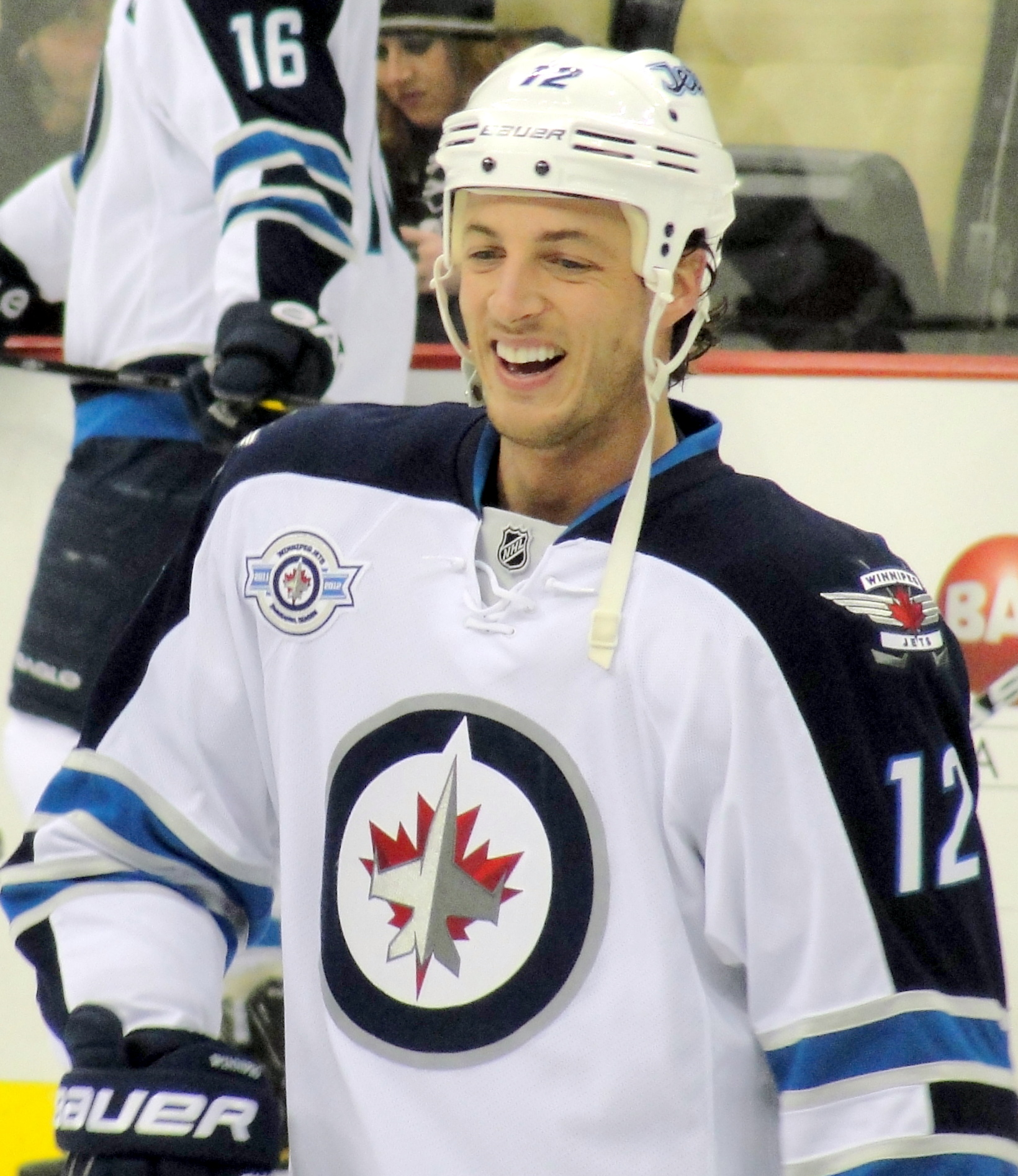 Randy Jones of the Winnepeg Jets during a game against the Pittsburgh Penguins, February 11, 2012 at Consol Energy Center in Pittsburgh, PA.